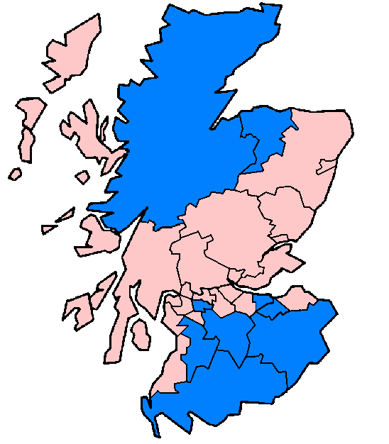 This image indicates in blue the Scottish council areas (1996 definition) affected by flooding on/by July 24th 2007. Every effort has been made to reduce error, and I apologise for any errors/omissions. Some areas with only minor damage have been omitted. To forestall criticism, citations for each and every one of these areas can be found on under "Affected areas in Scotland". The light blue colour was chosen because of its natural association with water, and pink as its opposite on the colour wheel. No other meaning is implied or should be inferred.